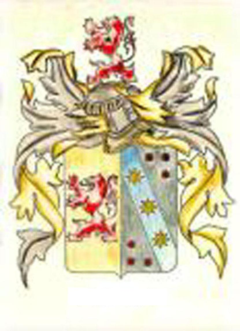 Blazon perestrello family